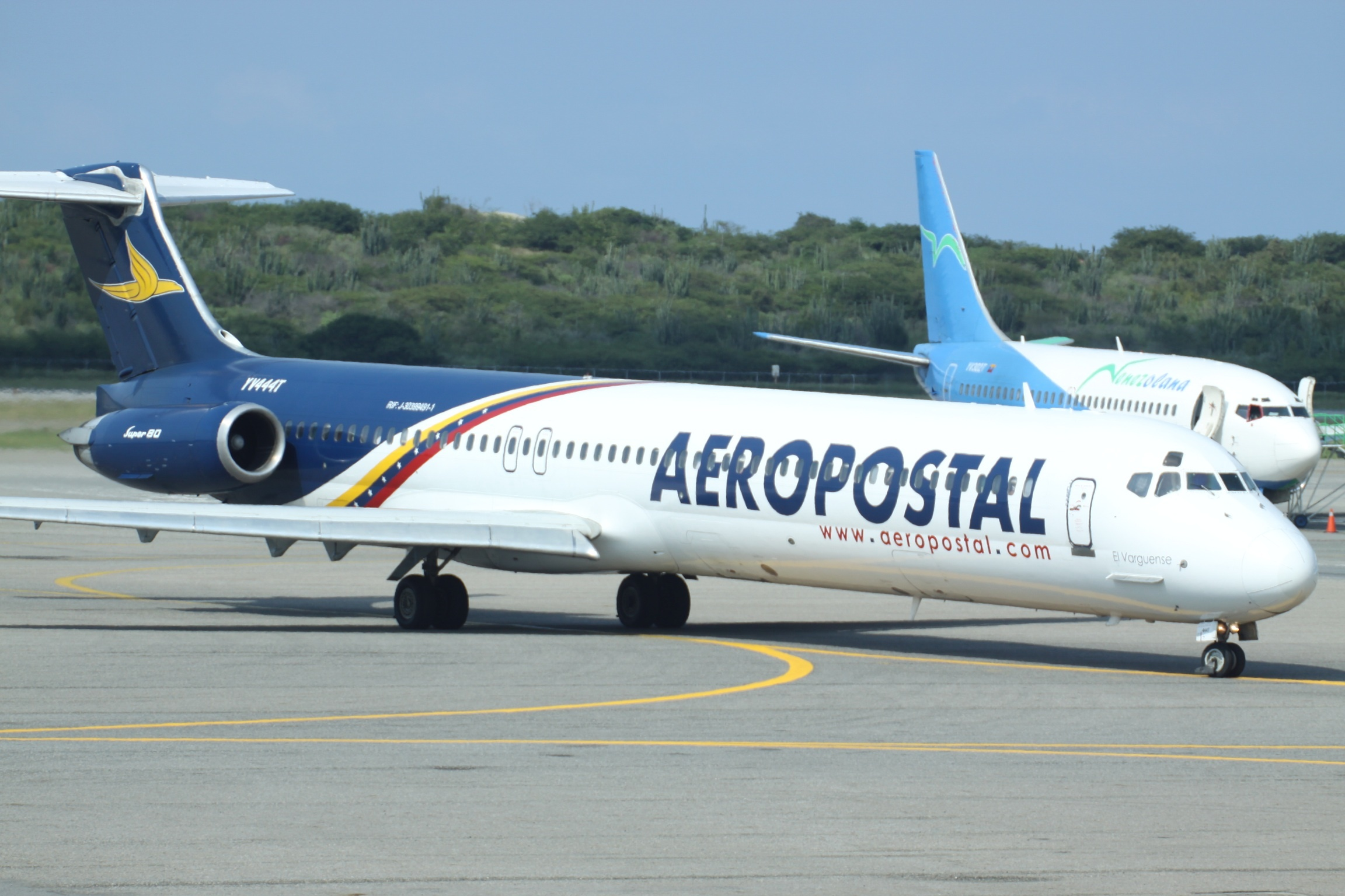 At Caracas Simón Bolívar International